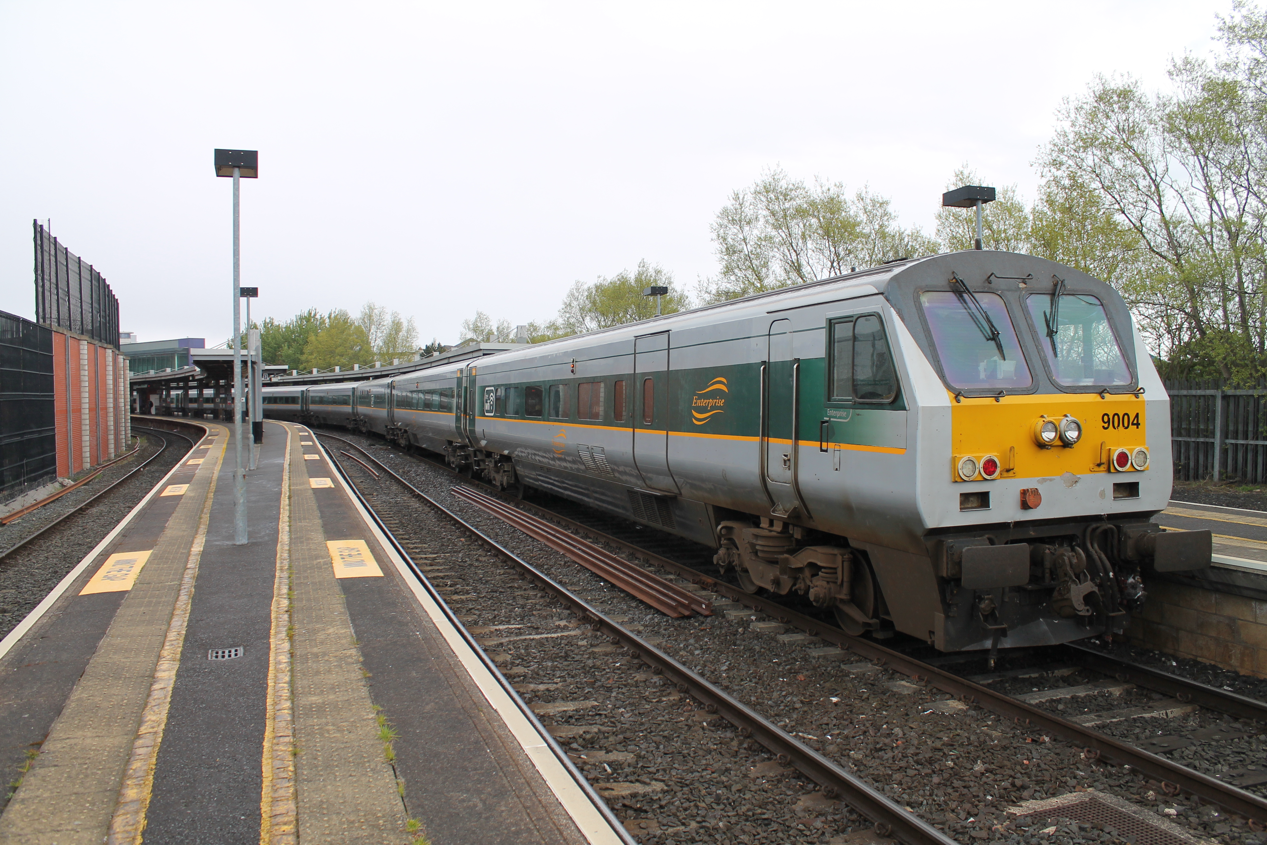 DeDietrich control car at Belfast Central.